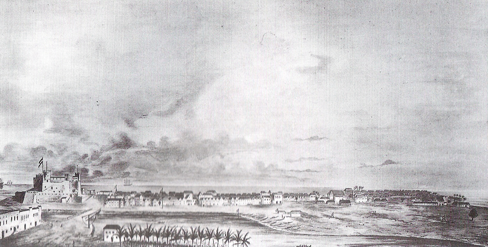 Elmina (Ghana), 1869 handtinted photograph of a drawing. Looking south from ST Jago Hill